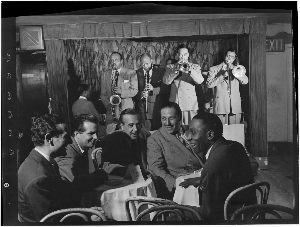 Gottlieb, William P., 1917-, photographer. [Portrait of Ben Webster, Eddie (Emmanuel) Barefield, Buck Clayton, Benny Morton, Joe Marsala, and Cozy Cole, Famous Door, New York, N.Y., ca. Oct. 1947] 1 negative : b&w ; 3 1/4 x 4 1/4 in. Notes: Gottlieb Collection Assignment No. 390 Reference print available in Music Division, Library of Congress. Purchase William P. Gottlieb Forms part of: William P. Gottlieb Collection (Library of Congress). Subjects: Webster, Ben Barefield, Eddie (Emmanuel) Clayton, Buck, 1911- Morton, Benny Marsala, Joe, 1907-1978 Cole, Cozy Jazz musicians--1940-1950. Fifty-second Street (New York, N.Y.)--1940-1950. Famous Door Format: Portrait photographs--1940-1950. Group portraits--1940-1950. Film negatives--1940-1950. Rights Info: Mr. Gottlieb has dedicated these works to the public domain, but rights of privacy and publicity may apply. Repository: (negative) Library of Congress, Prints & Photographs Division, Washington D.C. 20540 USA, (reference print) Library of Congress, Music Division, Washington D.C. 20540 USA, Part Of: William P. Gottlieb Collection (DLC) 99-401005 General information about the Gottlieb Collection is available at Persistent URL: Call Number: LC-GLB23- 0368 This work is from the William P. Gottlieb collection at the Library of Congress. Rights and restrictions.In accordance with the wishes of William Gottlieb, the photographs in this collection entered into the public domain on February 16, 2010.